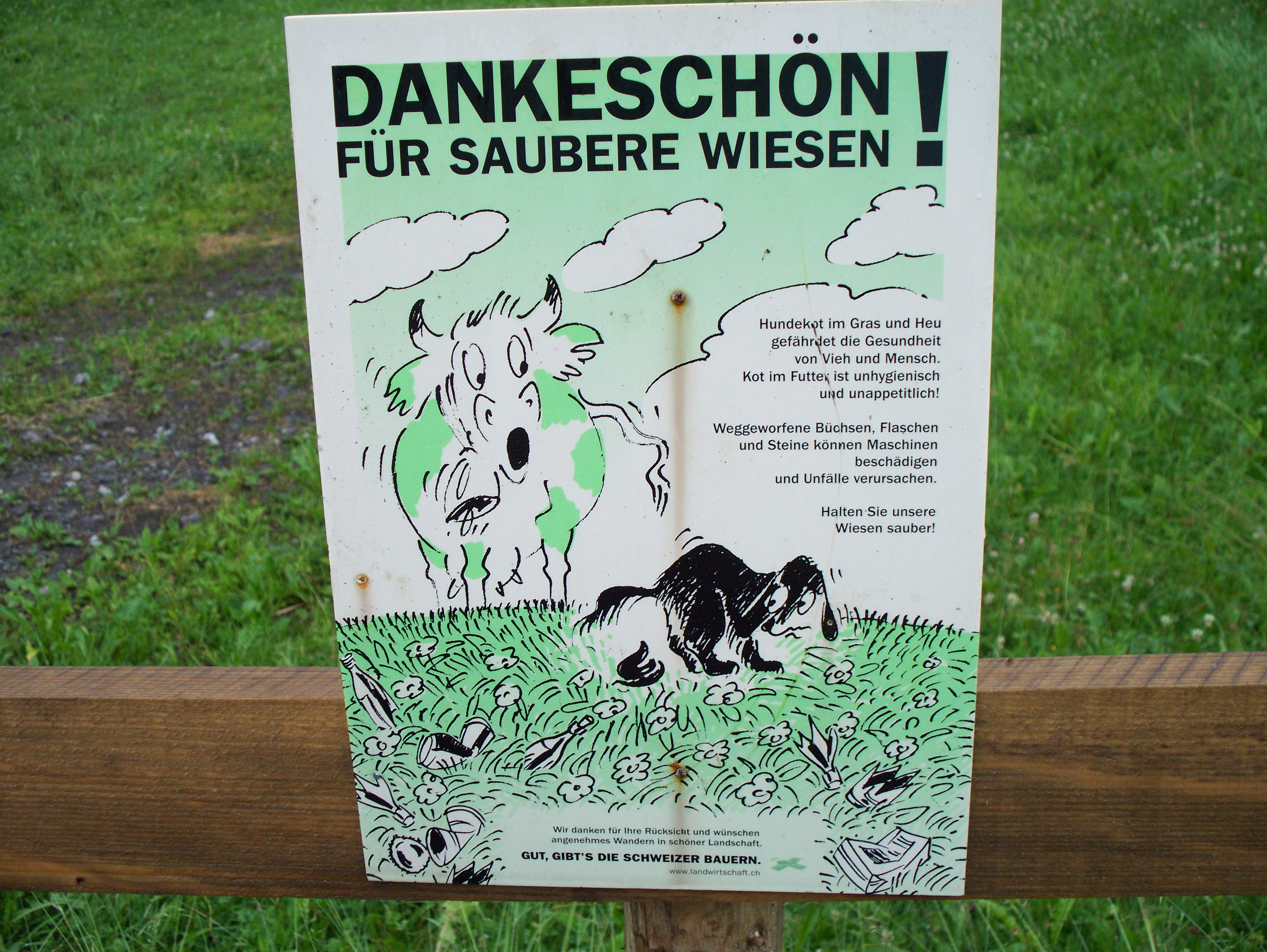 A sign posted in the Bernese Oberland, Switzerland